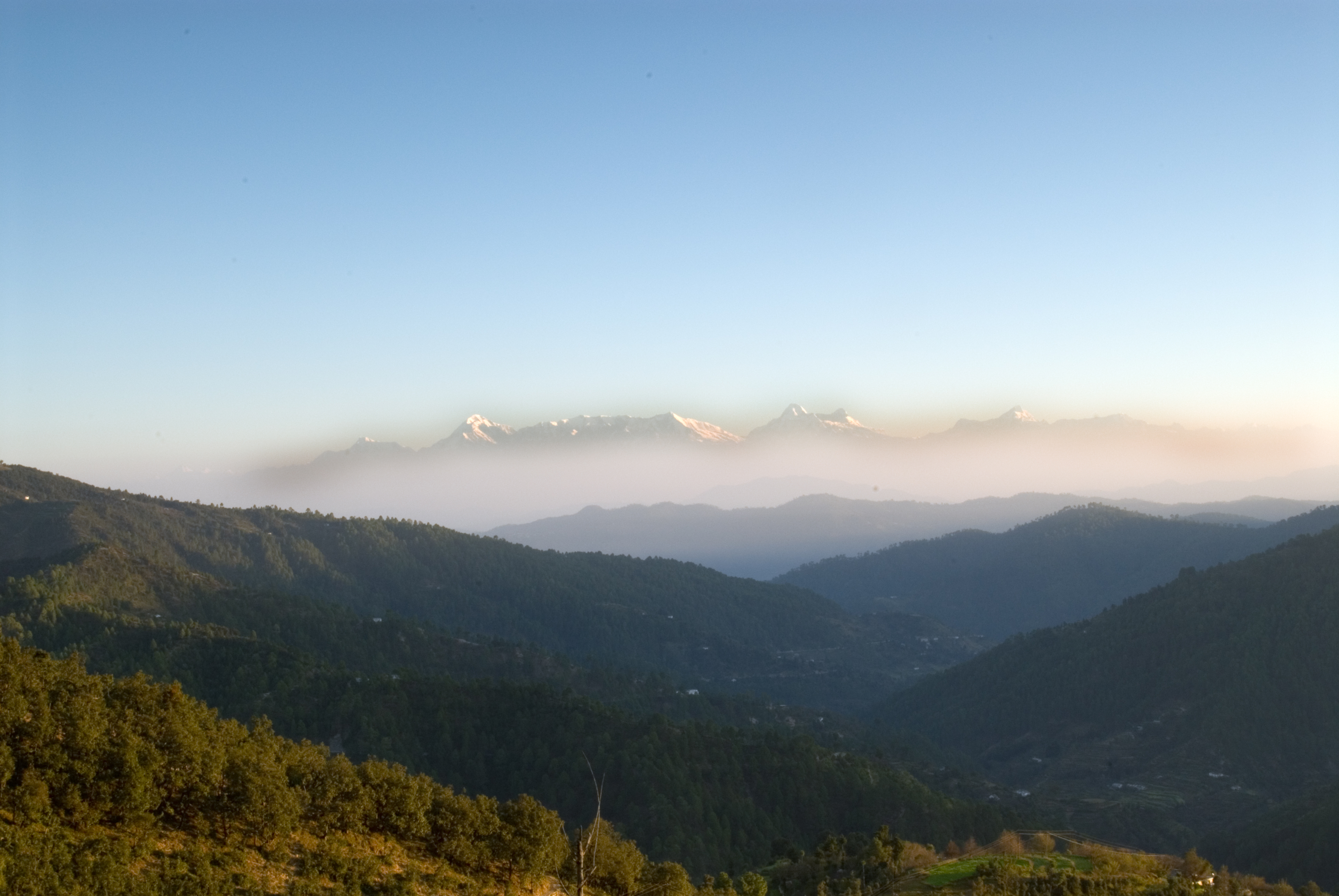 Binsar, a view of Kumaon Himalayas, (Uttarakhand)